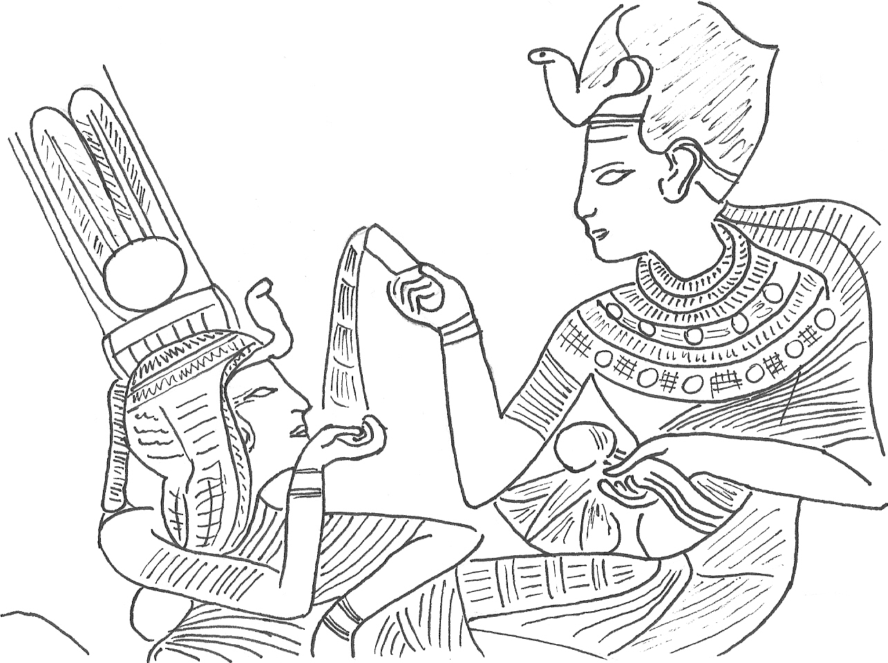 Tutankhamun pouring perfume oil onto the hand of his wife - gilded shrine